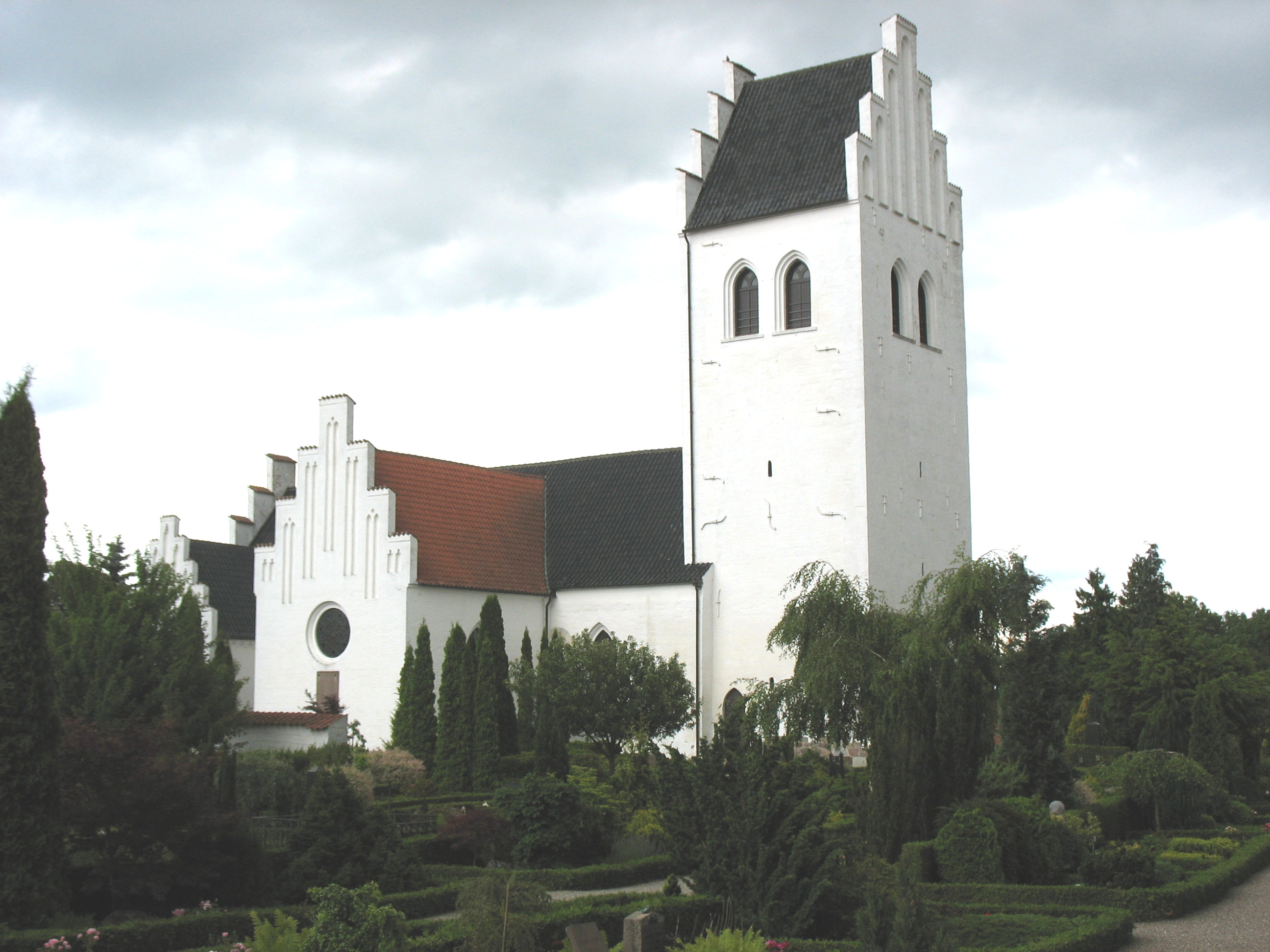 The church "Herfølge Kirke" located in Køge suburb "Herfølge". The location is Middle Zealand in east Denmark.